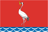 Zhuravskoe (Krasnodar krai), flag